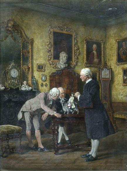 Count Brühl's Goat (three men examining a Meissen porcelain group on a table), Oil Painting, 1892 Victoria and Albert Museum, London, museum no. P.24-1917 (Link)